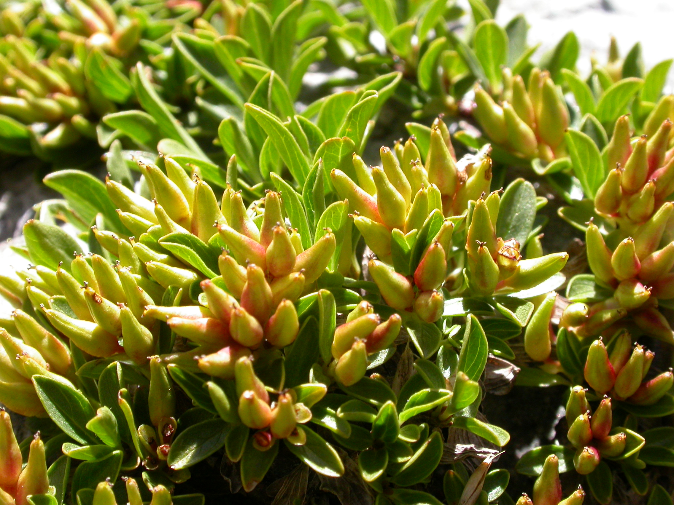 Salix retusa Zermatt, Riffelberg (Kanton Wallis, Switzerland), 2500 m Author: Barbara Studer – own photograph Date: 2.08.06